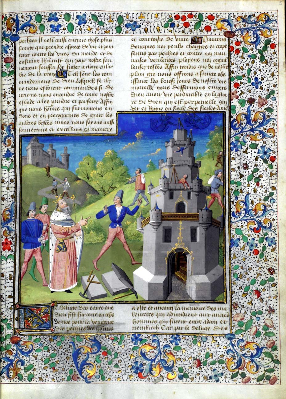 De casibus. Nimrod and the Tower of Babel (vol. 1: folio 5r)